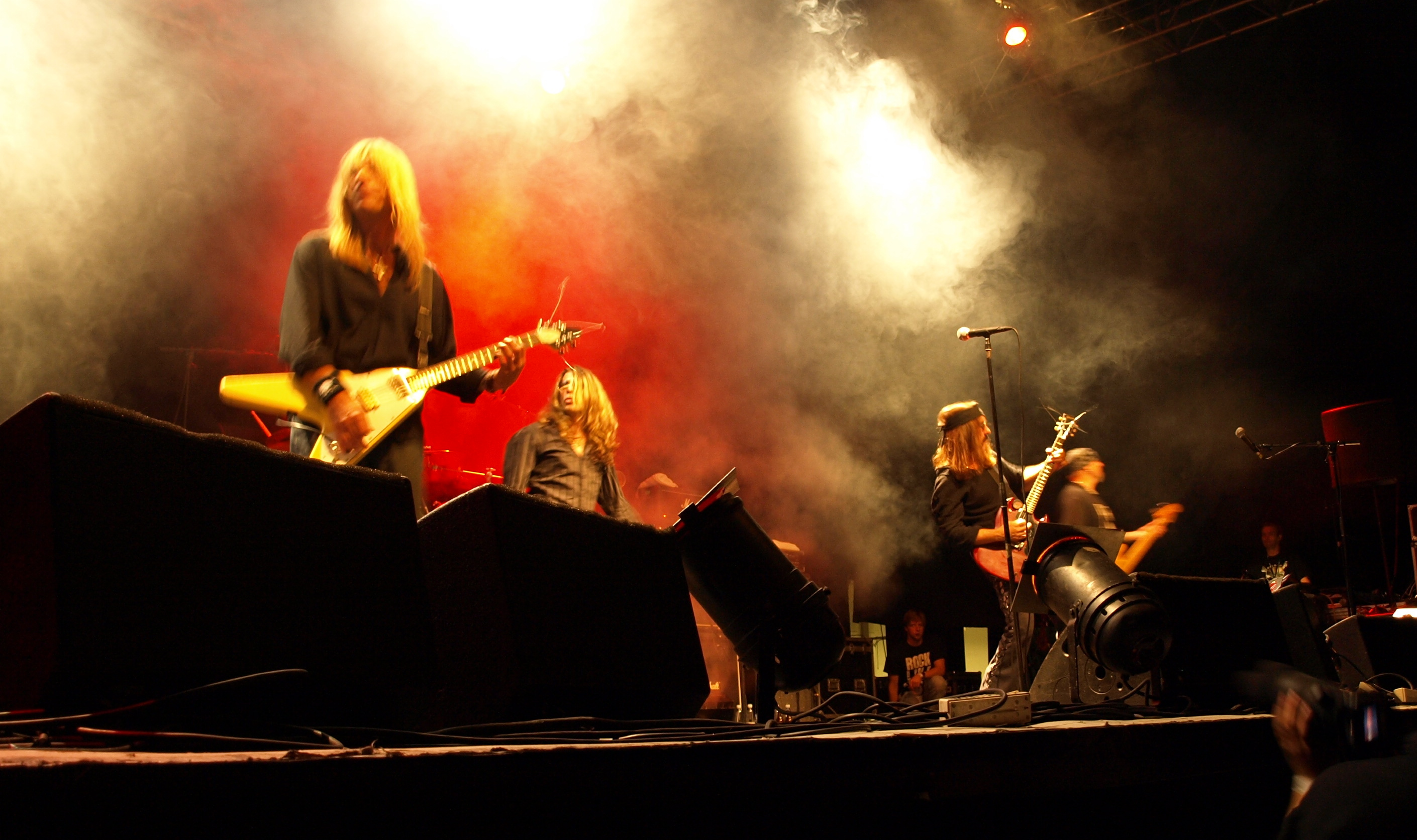 American doom metal band Trouble live at Jalometalli 2008 in Oulu.